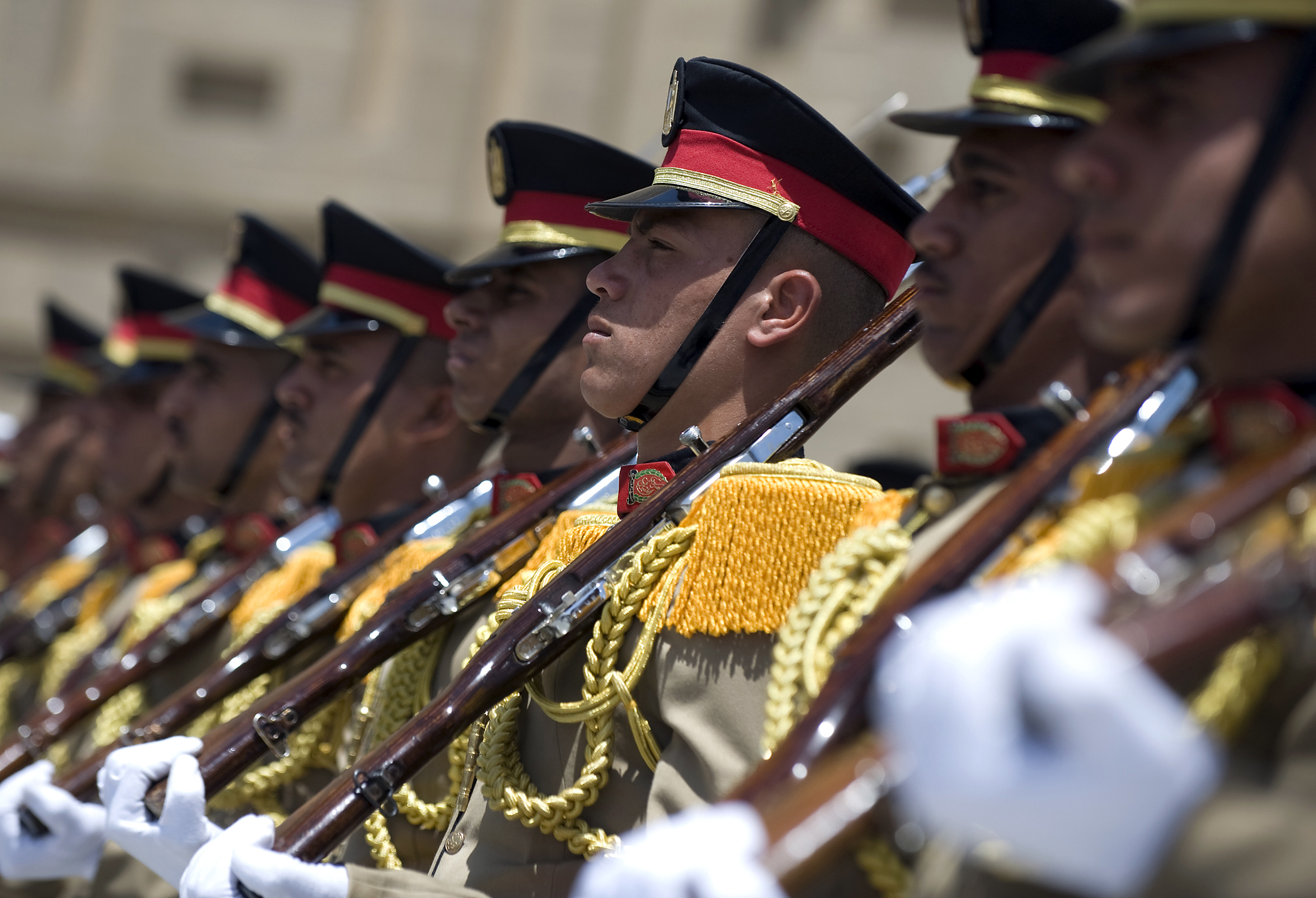 Egyptian honor guard soldiers welcome U.S. Navy Adm. Mike Mullen, chairman of the Joint Chiefs of Staff, during a welcoming ceremony to Cairo, Egypt, April 21, 2009.